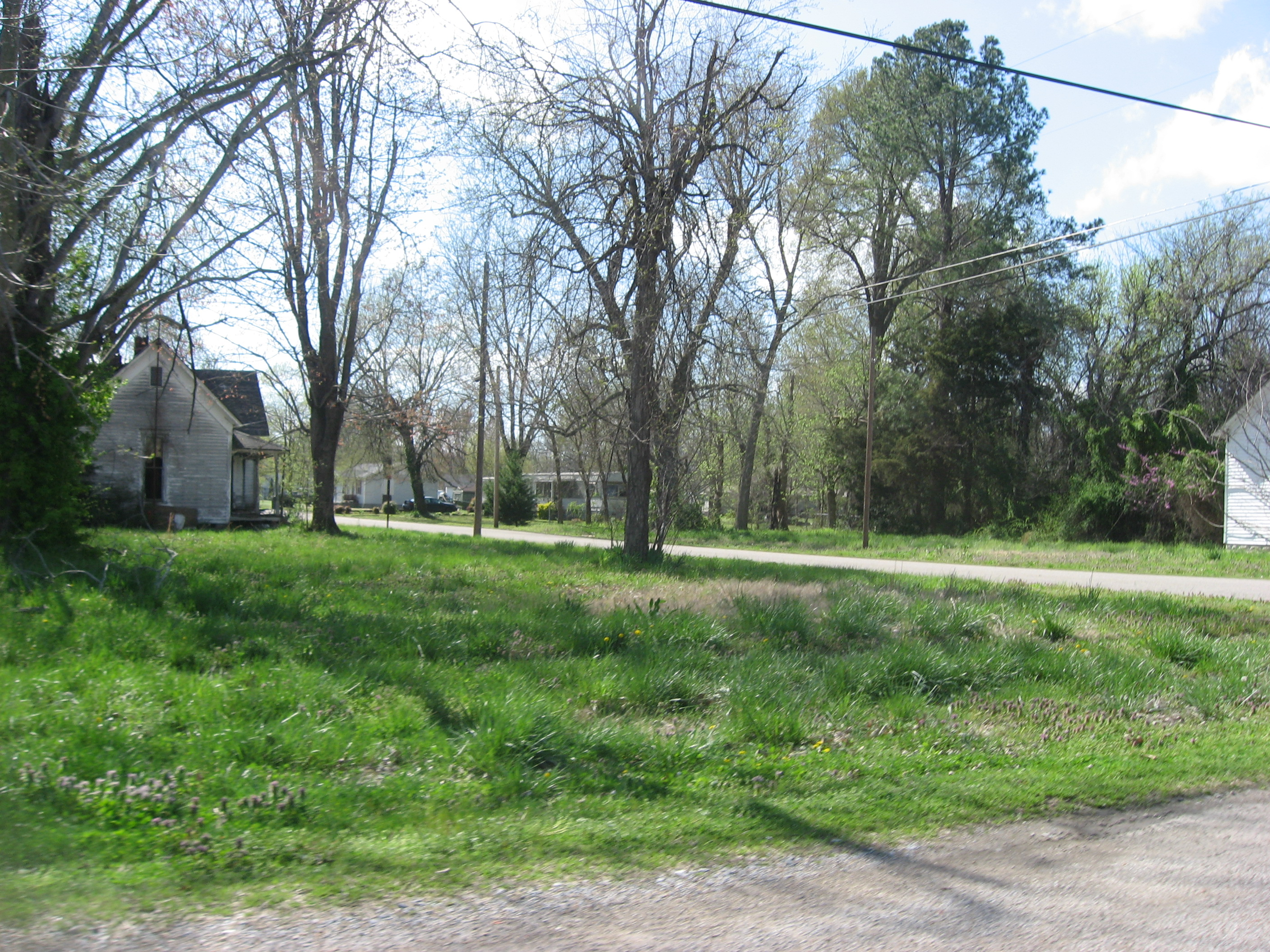 Site of Dickey's Octagonal Barbershop, located on the southwestern corner of the junction of Church and High Streets in Rives, Tennessee, United States. Built in 1894, it was listed on the National Register of Historic Places, and it has not yet been removed despite its destruction.